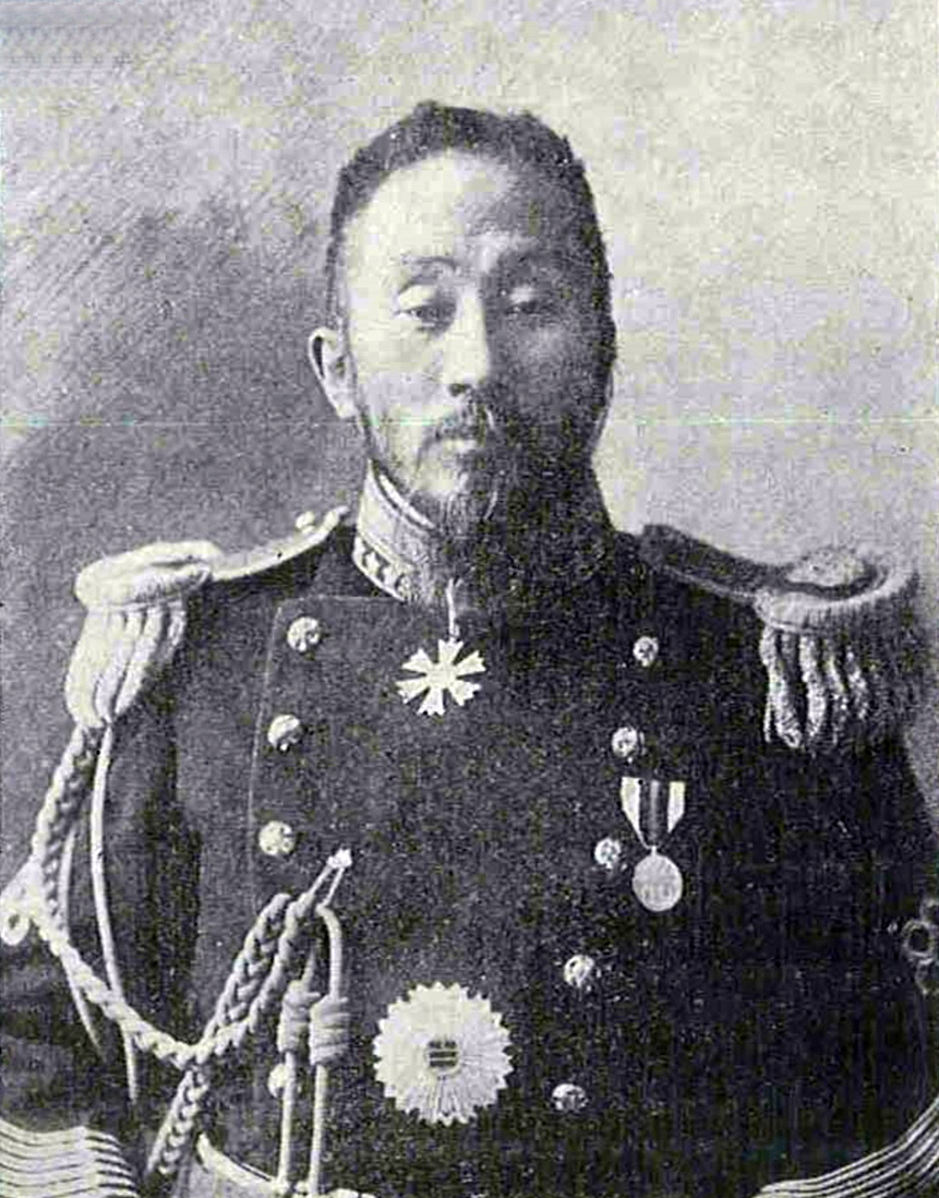 Lee Yong-ik, Minister of Finance during the Korean Empire